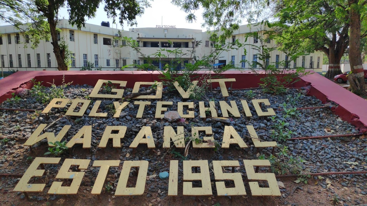 Entrance of Government Polytechnic college warangal